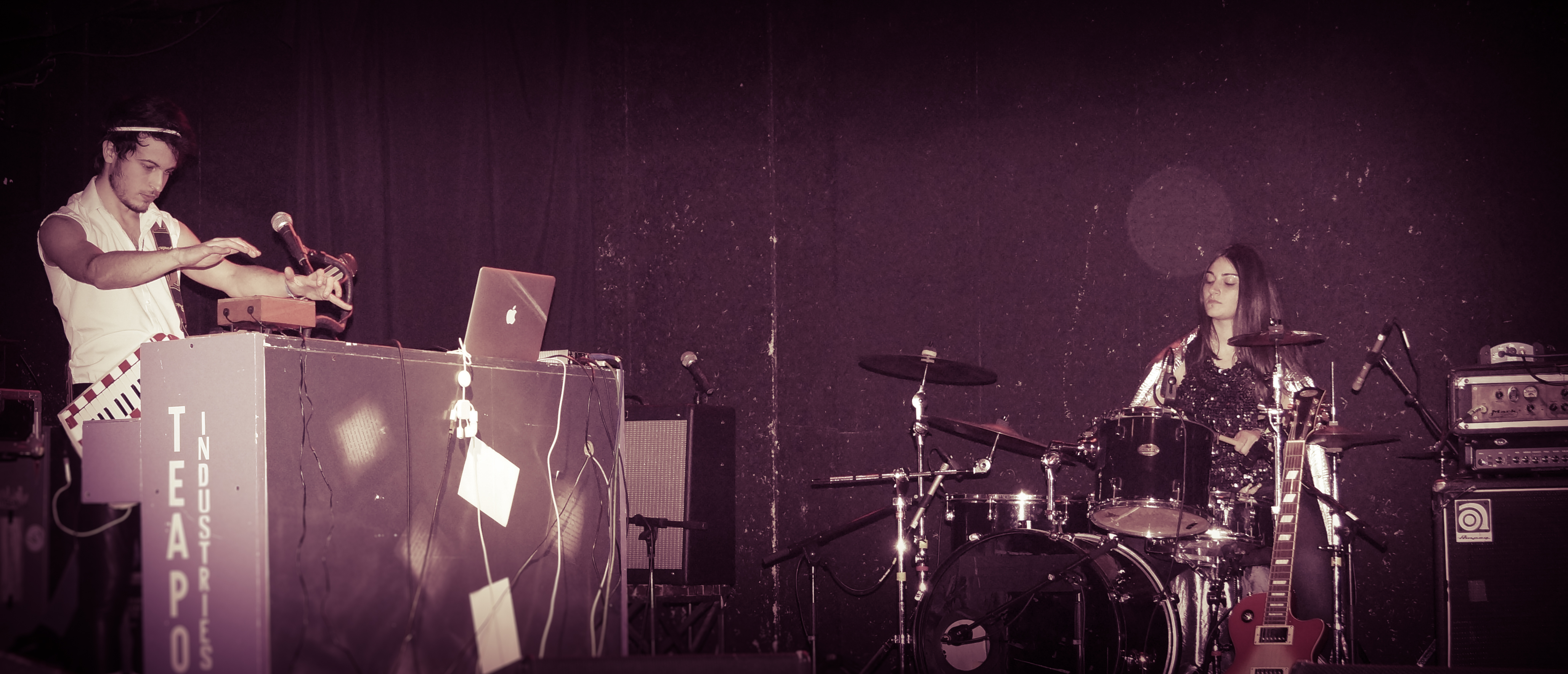 Teapot Industries performing at Circolo degli Artisti, Rome